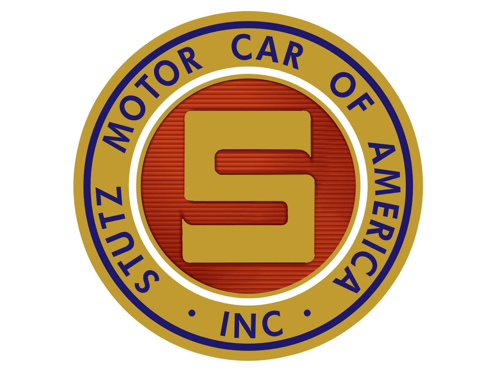 Logo